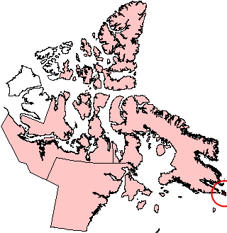 Base image created by Keith Edkins as GFDL, modified by Tim Vasquez.